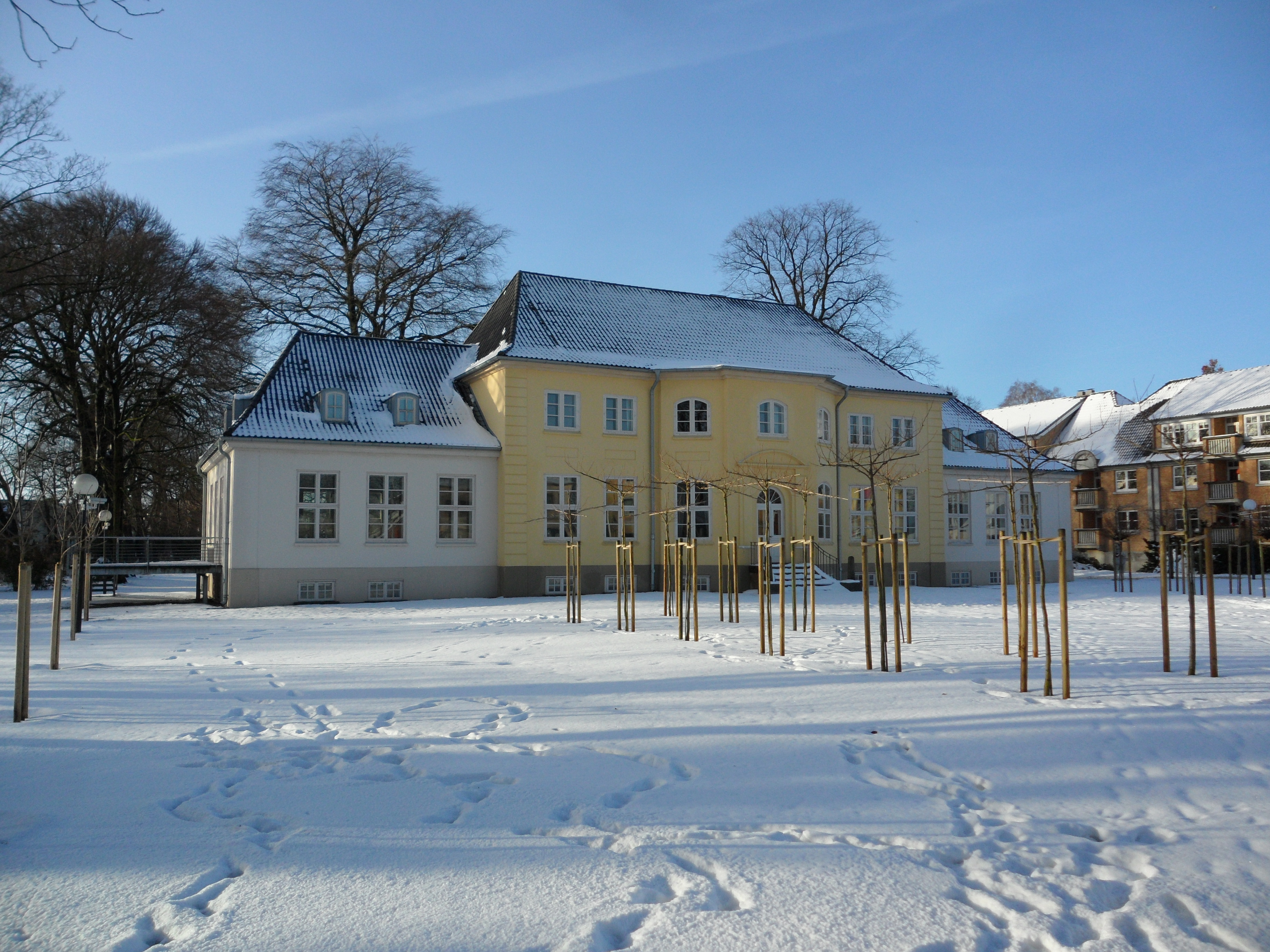 Frontside of the Caspar von Saldern Haus in Neumünster